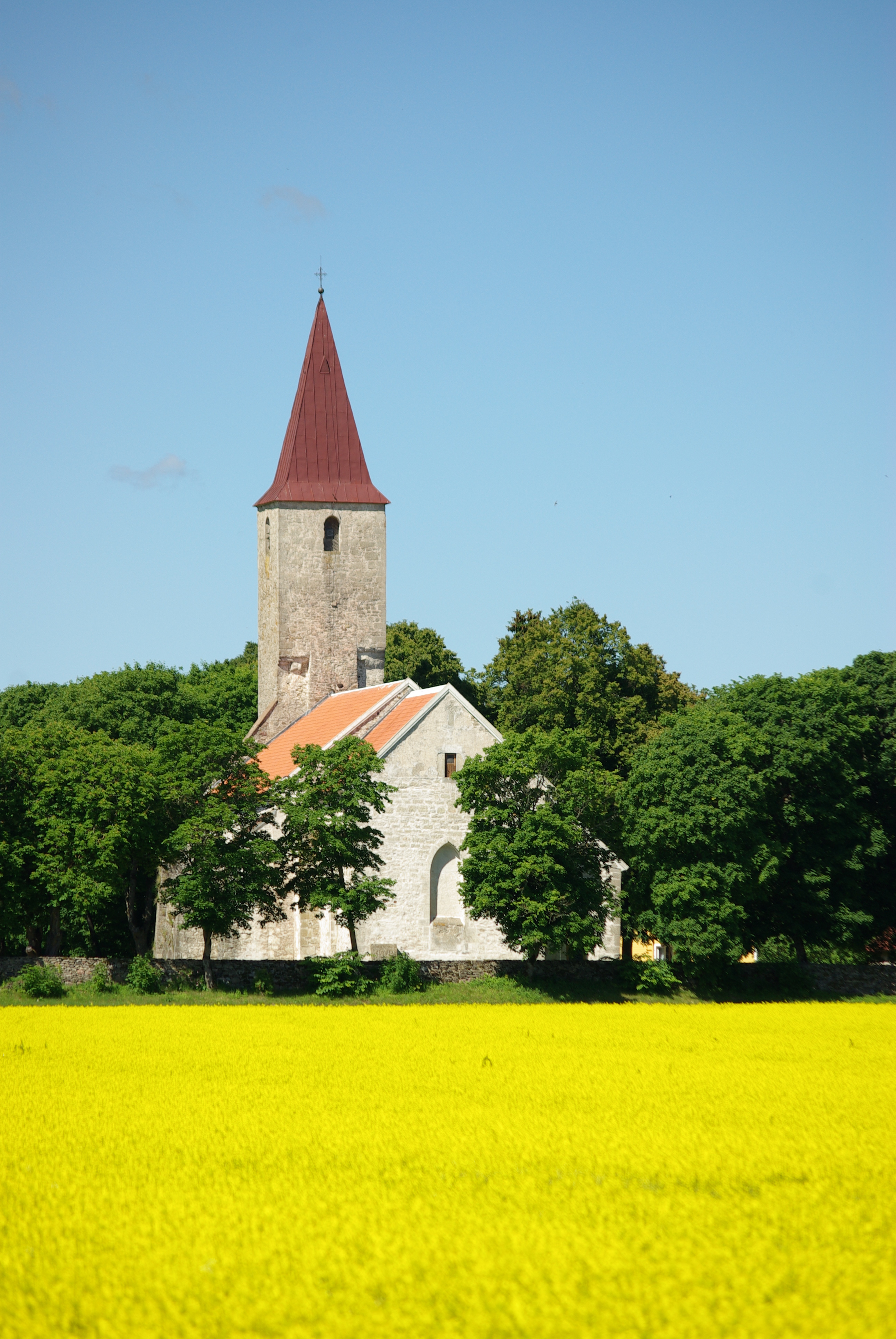 Old medieval Püha St. Jacob's church in Saaremaa Estonia.